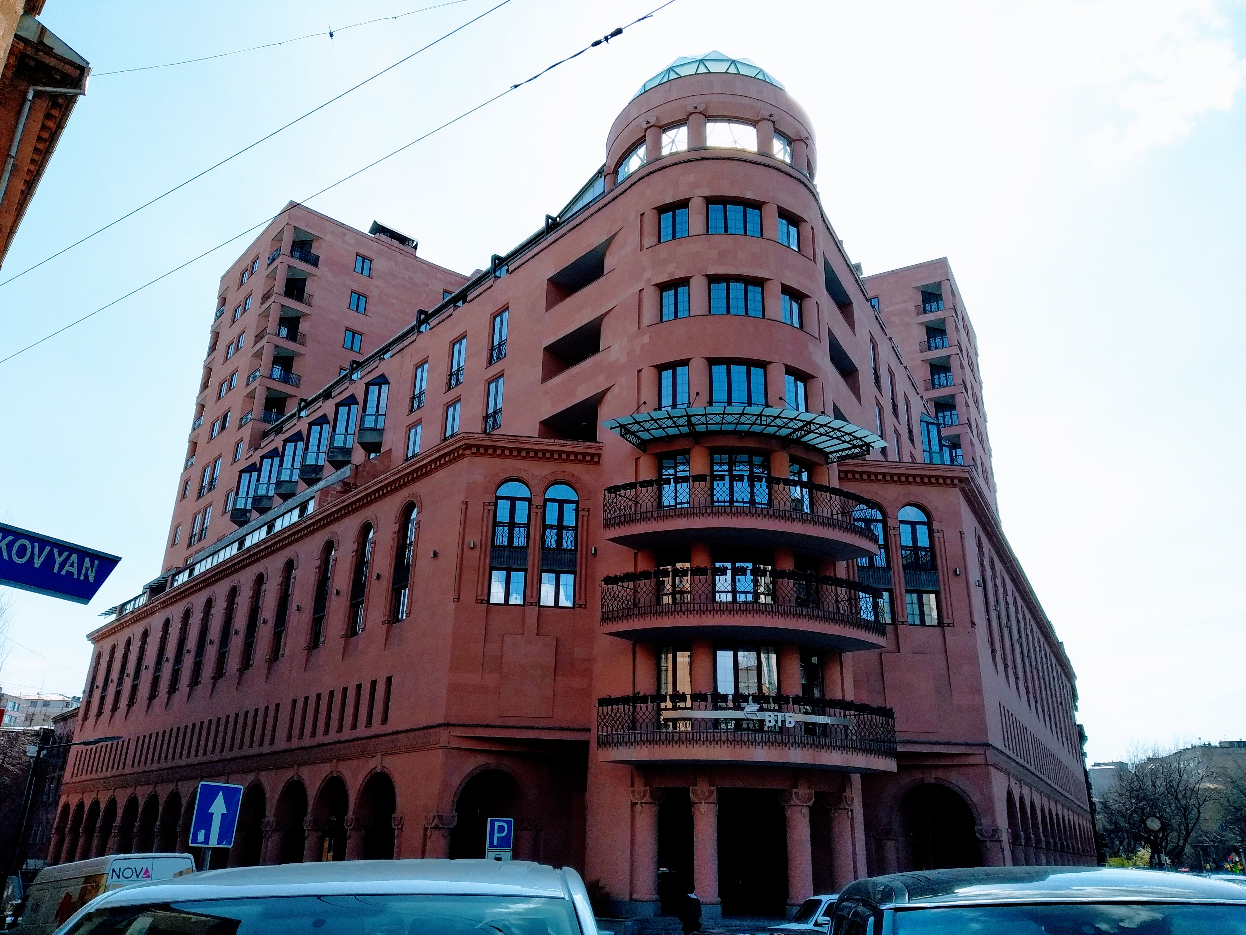 Moscow passage building in Yerevan